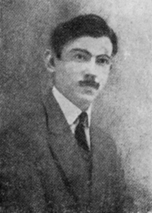 Trifko Grabez